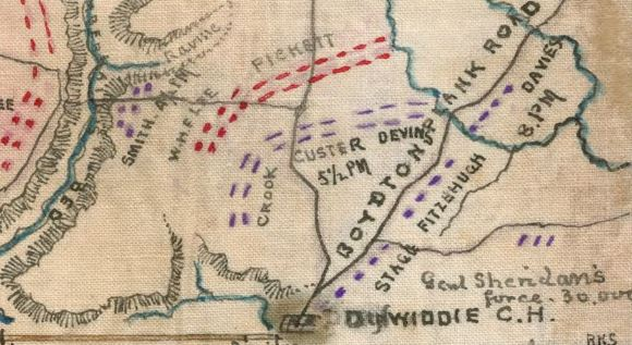 This a portion of a map made by the US military that shows the American Civil War battlefield near Dinwiddie Court House at the end of March 1865.